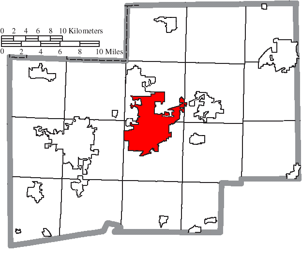 Map of the municipal and township boundaries of Stark County, Ohio, United States, as of the 2000 census, with the location of the city of Canton highlighted. Township borders are shown only in unincorporated areas in order to differentiate incorporated and unincorporated areas more clearly.